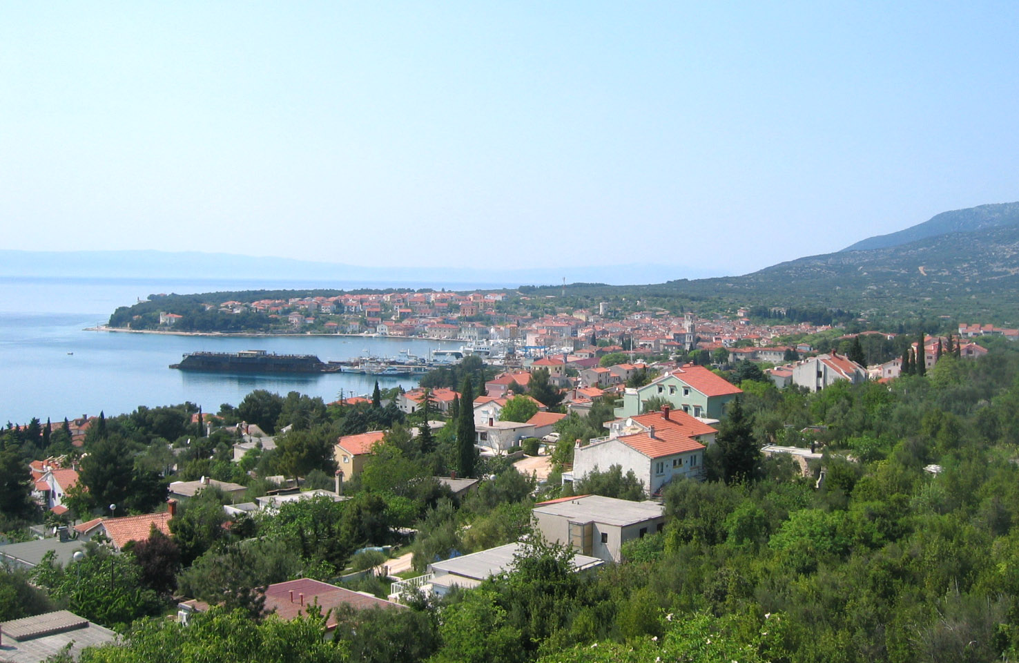 City of Cres, capital of the island Cres, Croatia